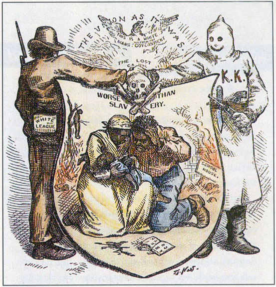 “Worse than Slavery” by Thomas Nast,Wikimedia Commons user comments: As shown in this Thomas Nast cartoon, Worse than Slavery, white groups such as the Ku Klux Klan and the White League used every form of terror, violence, and intimidation to restore a “white man’s government” and redeem the noble “lost cause.”